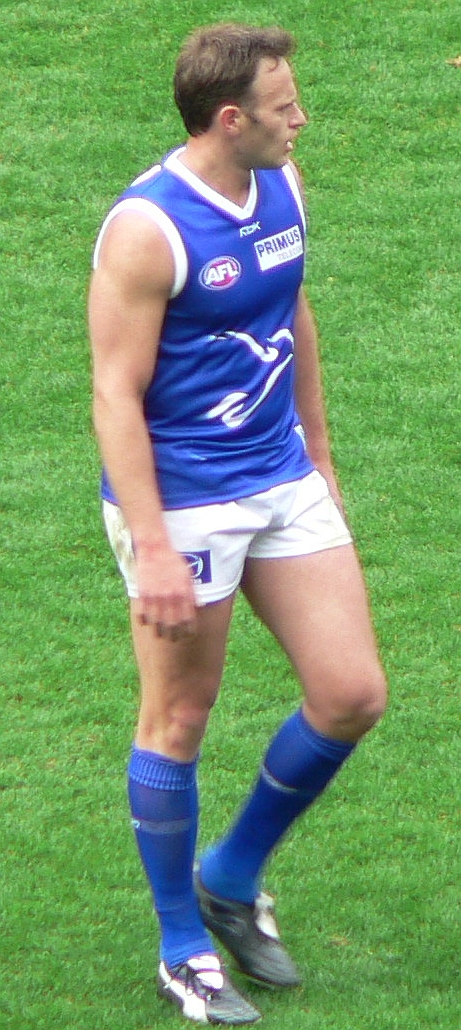 Saverio Rocca, Australian rules footballer